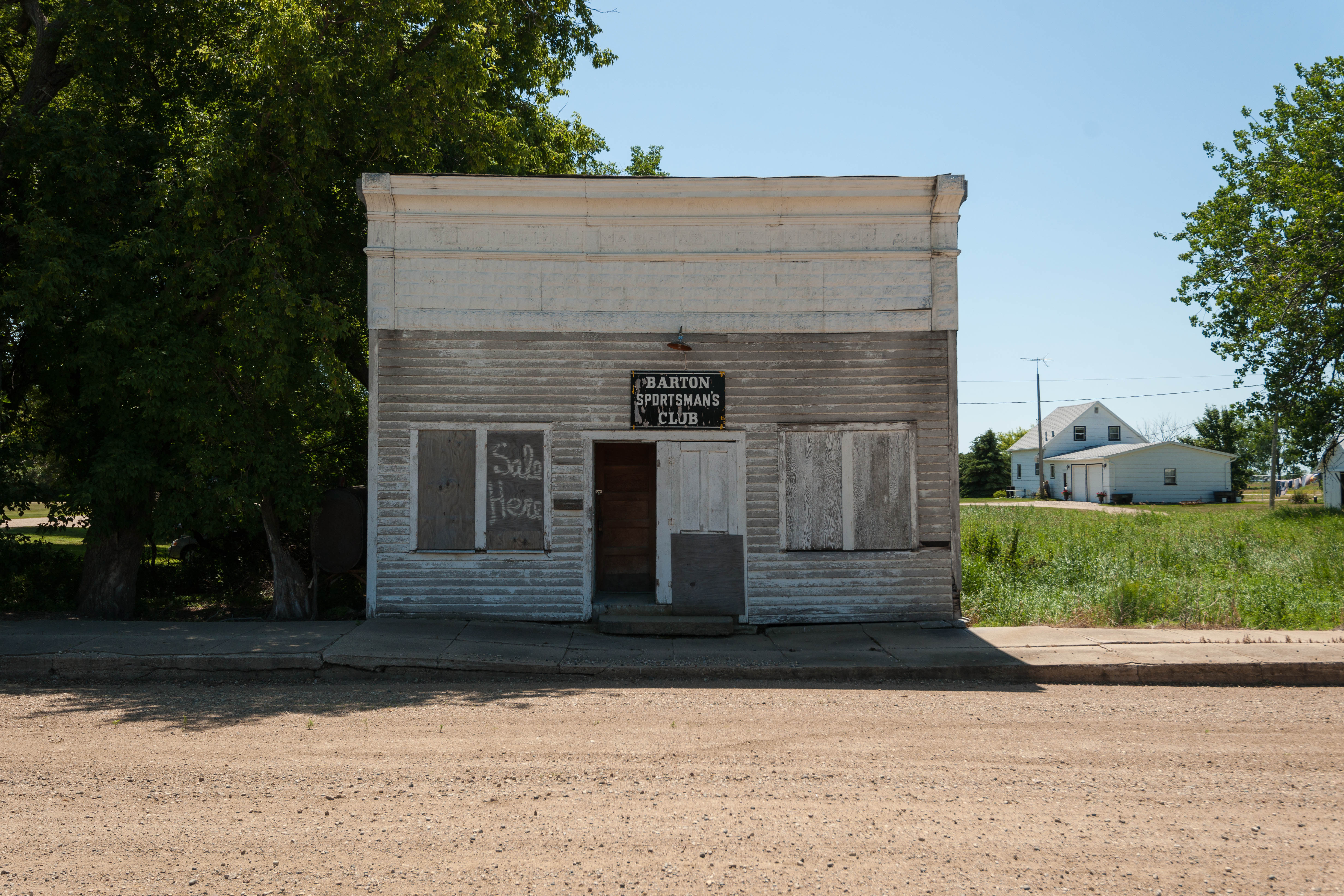 Barton Sportman Club - Barton, North Dakota